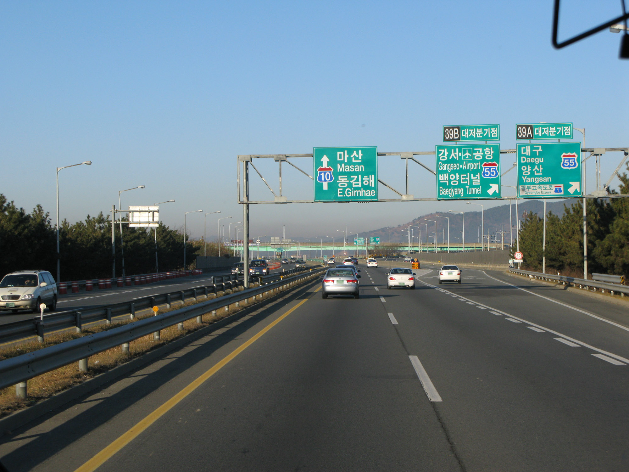 Namhae, Jungang Expressway Daejeo JCT